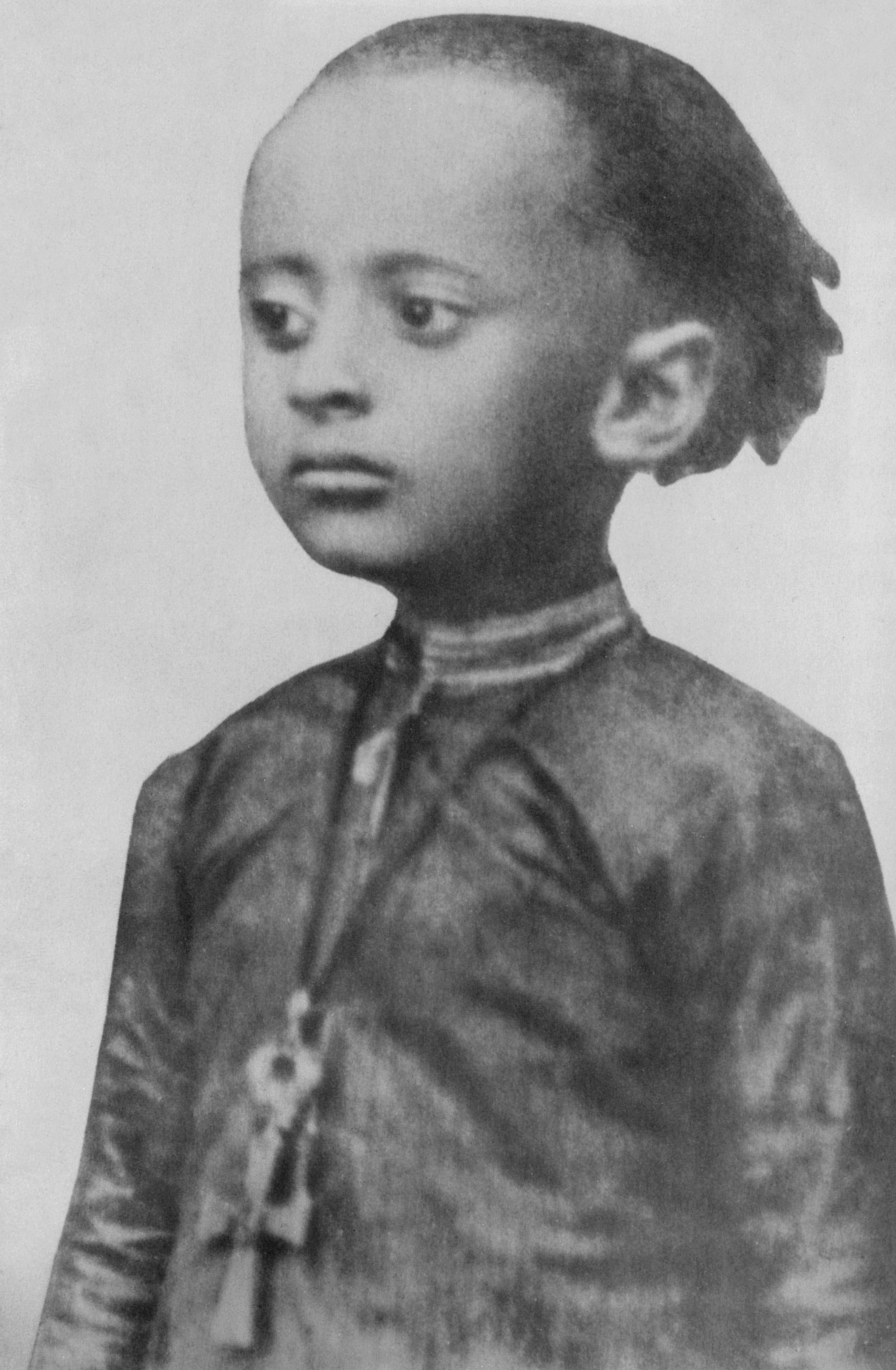 Lij Tafari Makonnen in 1895, age three, wearing Father Andre Jarosseau's pectoral cross